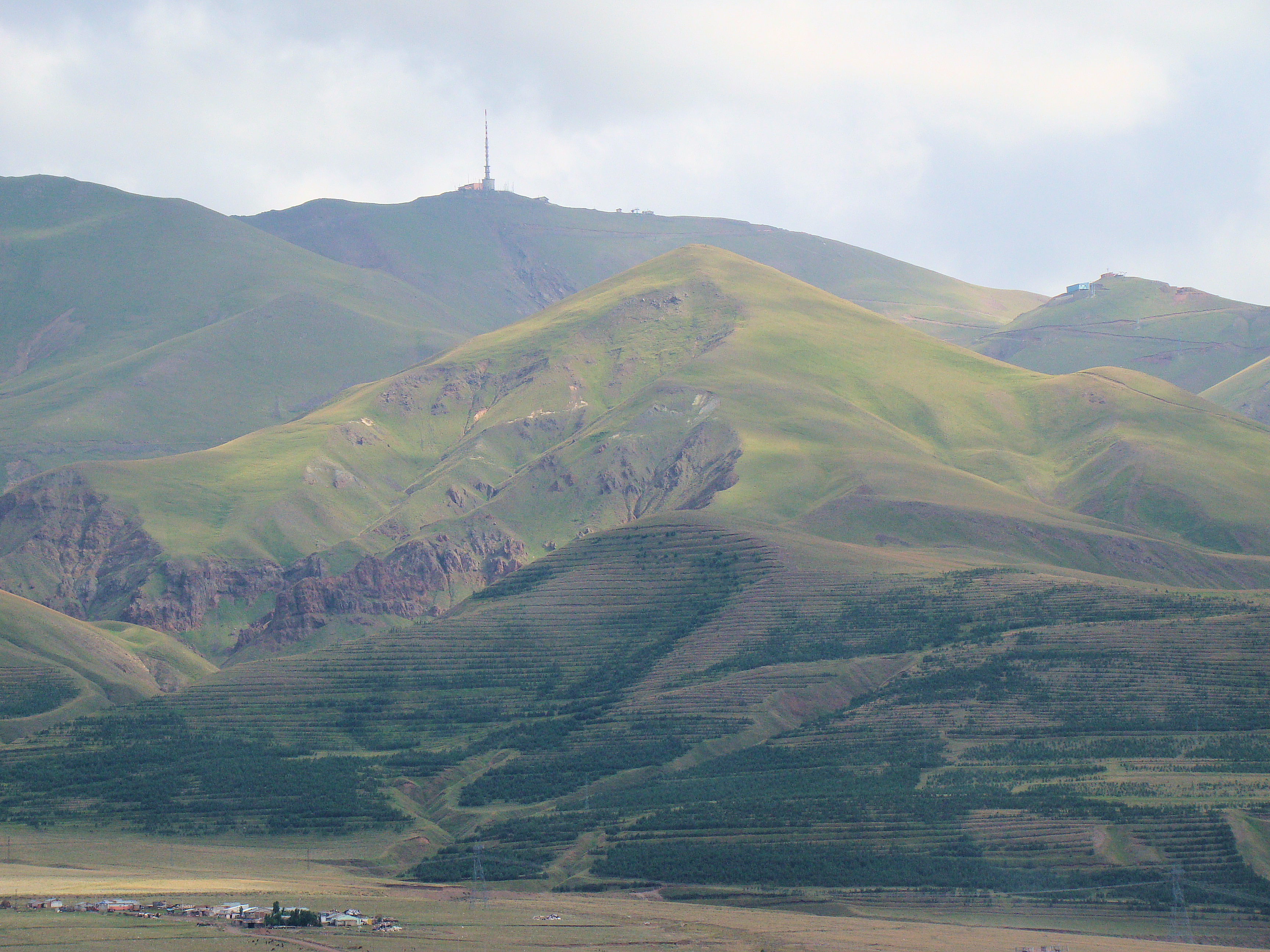 The mountain Palandöken near Erzurum, Turkey, is one of the best spots in Turkey for downhill skiing. During the summer this is what the mountain looks like from downtown Erzurum.